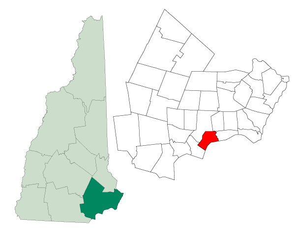 Map of a municipality in Rockingham County, New Hampshire